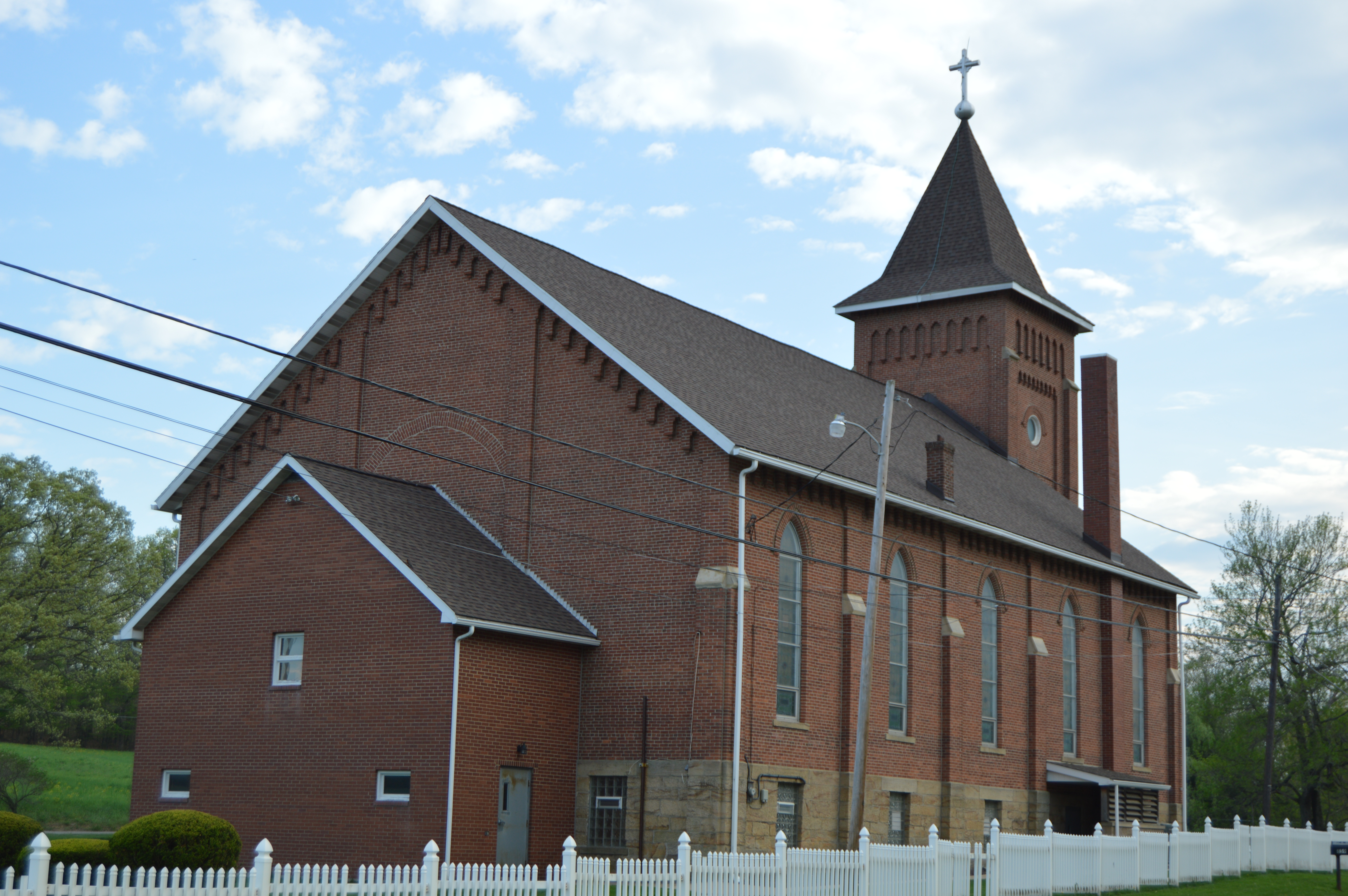 Rear and northern side of St. Joseph's Catholic Church, located at 864 Chicora Road (Pennsylvania Route 68) at North Oakland in Oakland Township, Butler County, Pennsylvania, United States. It was built in 1872.